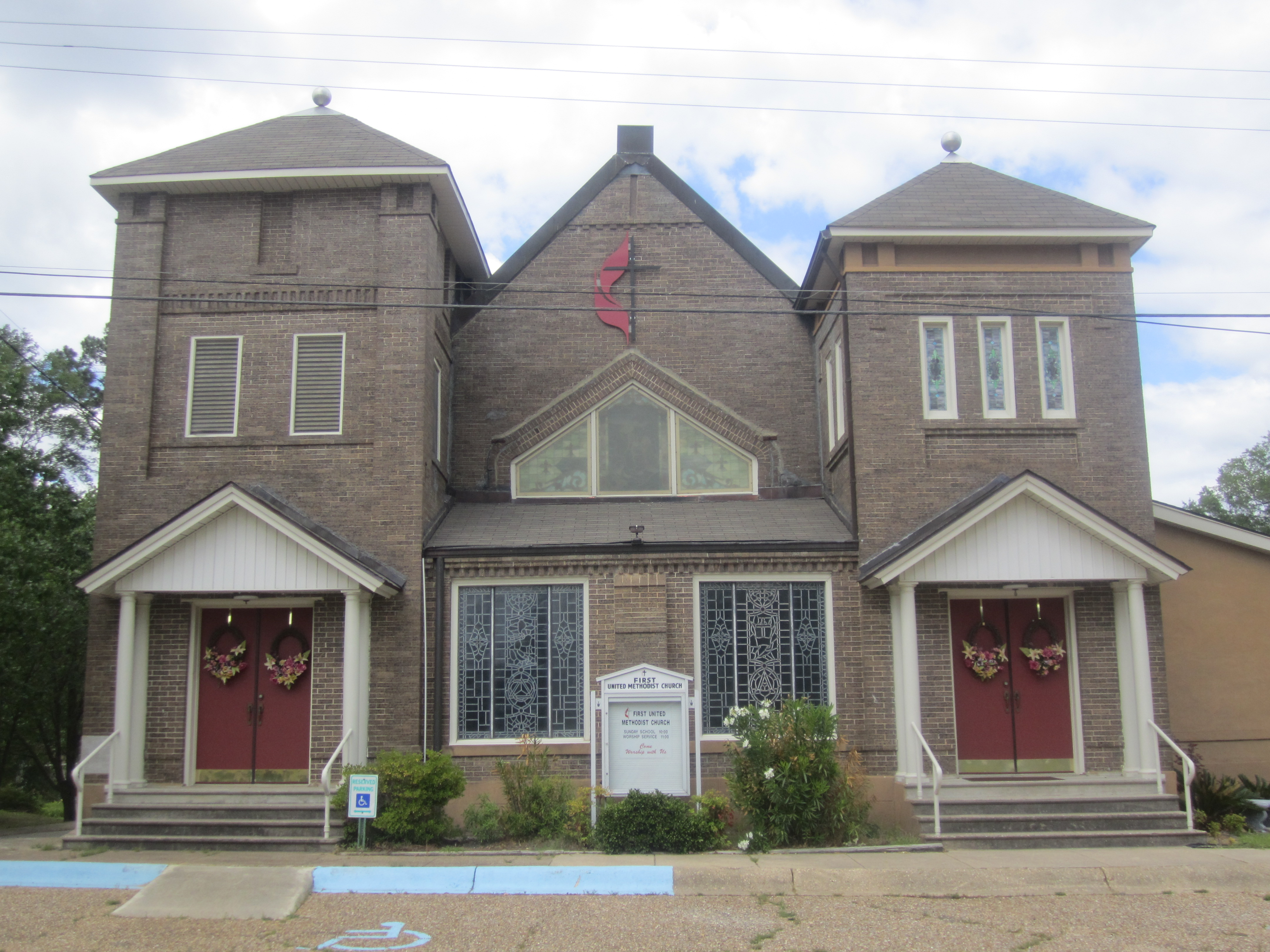 I took photo with Canon camera of First United Methodist Church in Junction City, AR.